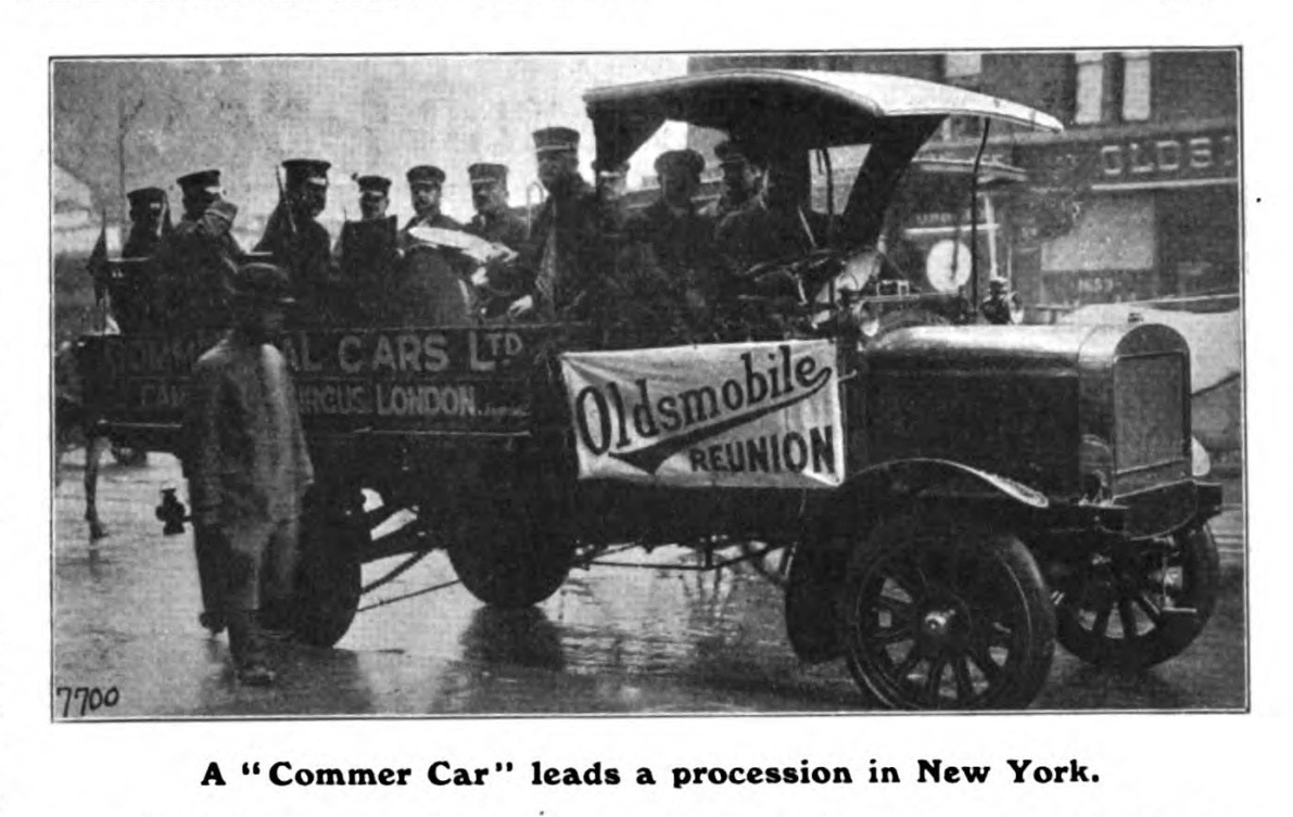 Commer lorry (christened Florrie) leading a parade of 400 Oldsmobile cars on the occasion of the Oldsmobile reunion. Summer 1910